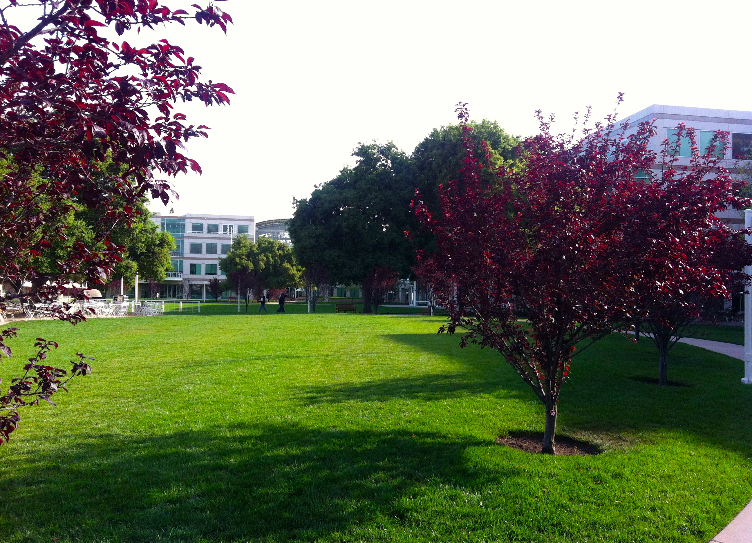 This is a photograph of inside Apple Campus, at Infinite Loop, Cupertino, CA. Taken outside Caffé Macs, looking towards IL6.